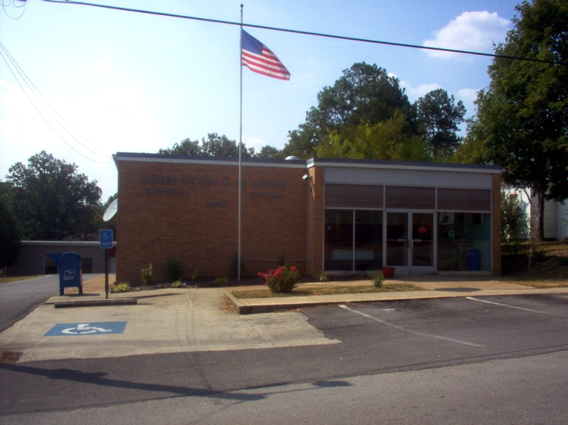 Post Office in Cherokee, Alabama